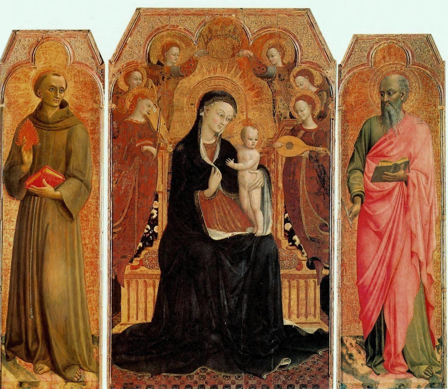 Madonna and Child with Angels and Saints.